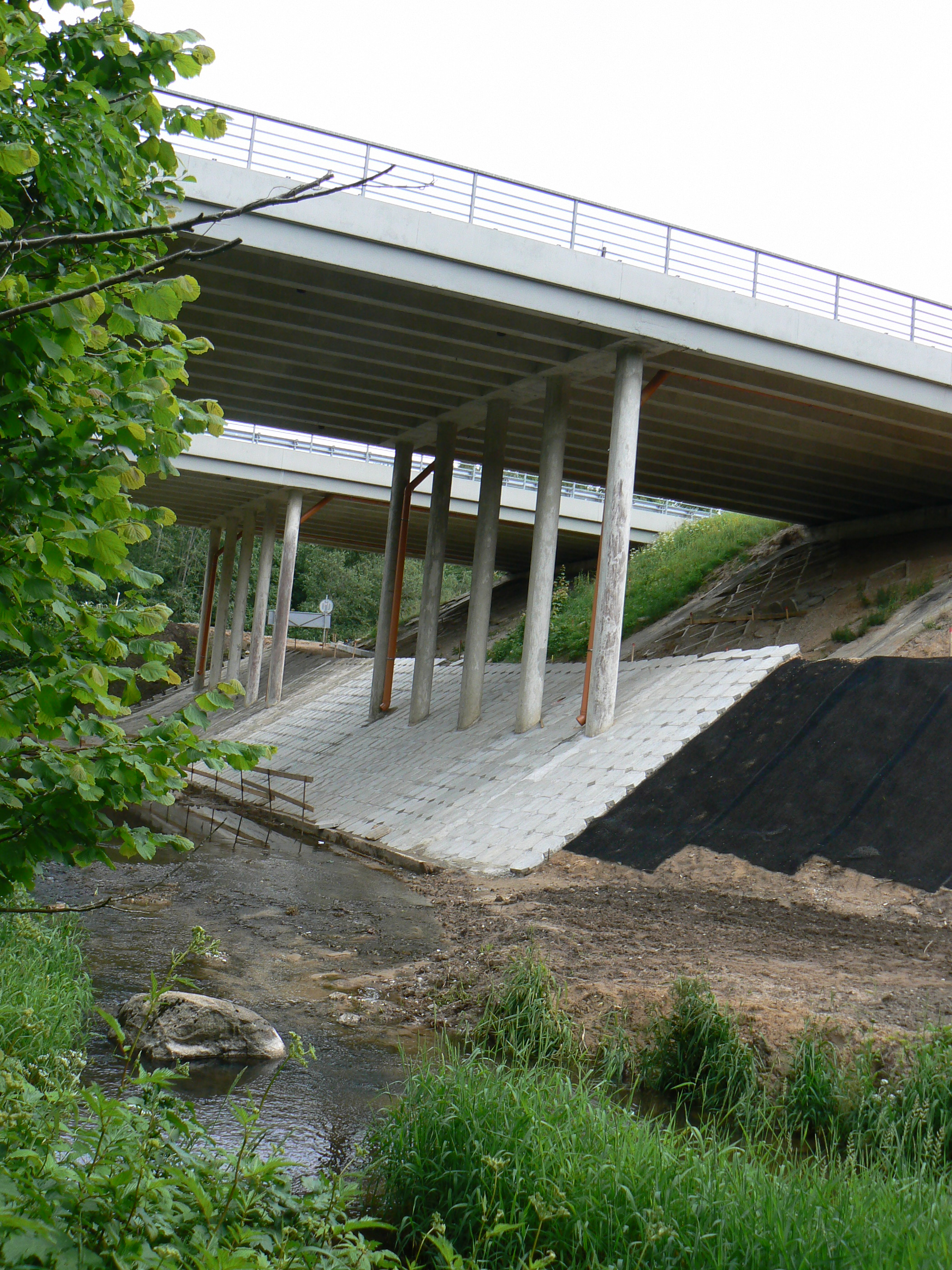 River Veiviržas